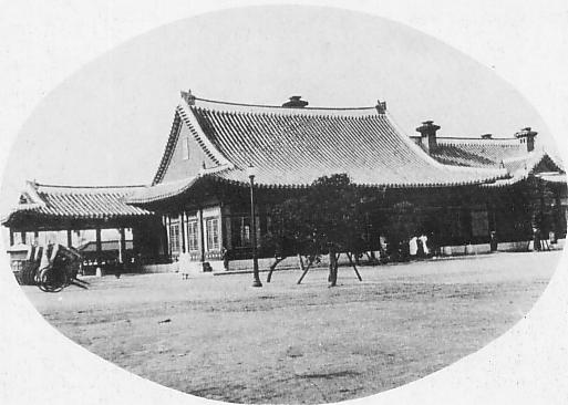 Suwon Station-Suigen Station — Suwon (South Korea). Built in 1905 during the Japanese Colonial Korea period.